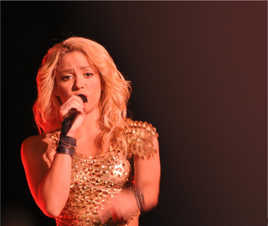 Shakira live at the 2011 Singapore Grand Prix.